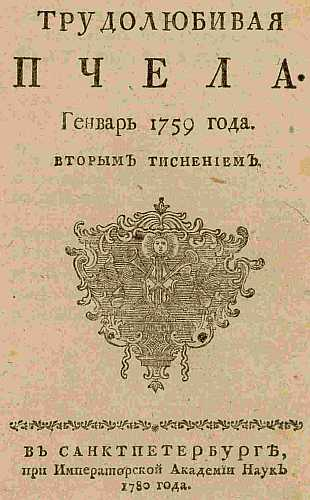 The cover of “Trudoludivaya Pchela” magazine №1, 1759